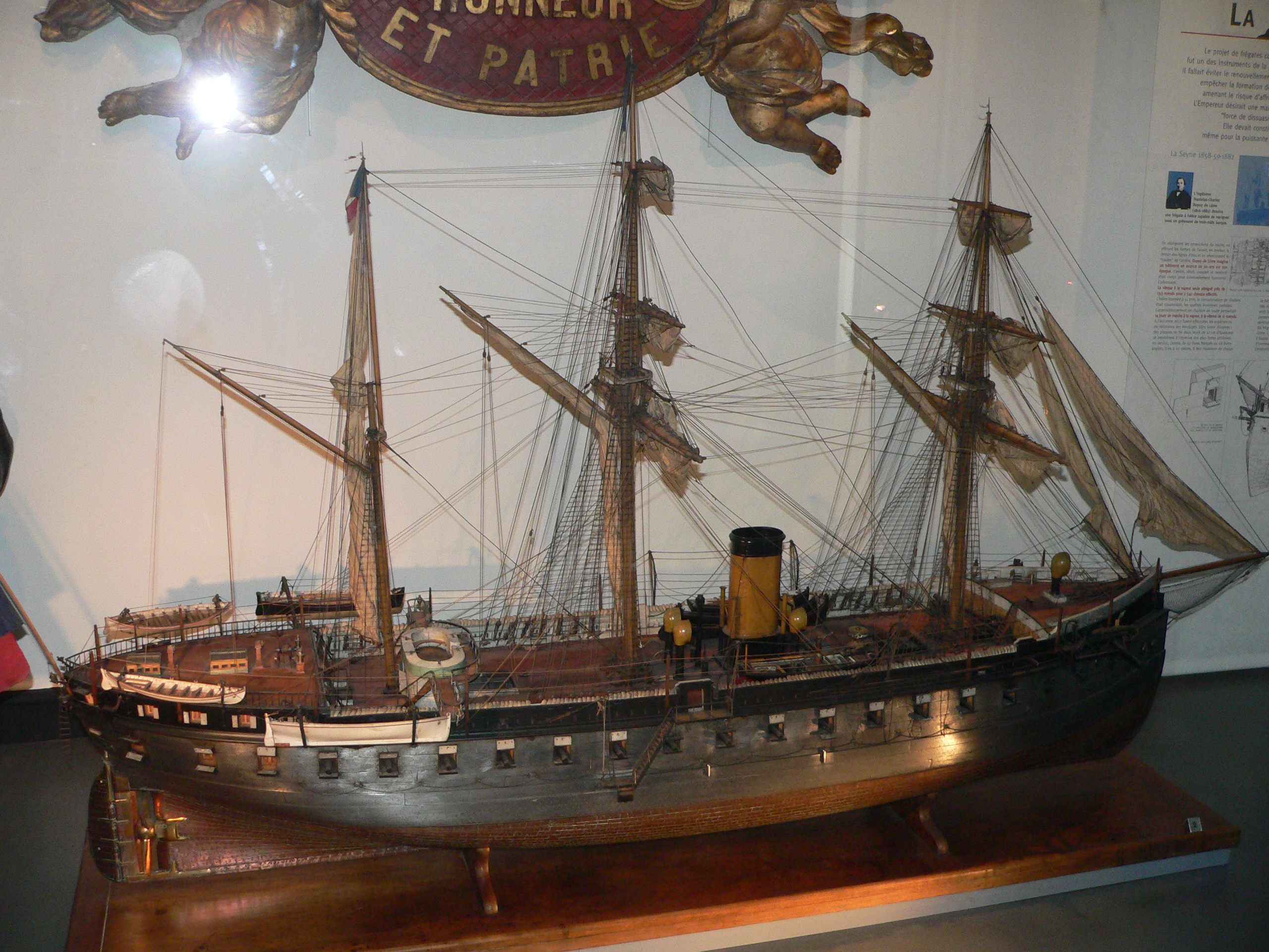 Scale model of the French battleship Gloire